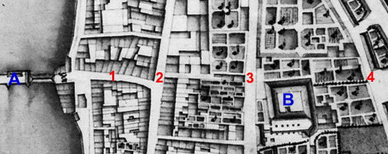 Map of Maastricht, the Netherlands, by Larcher d'Aubencourt (1749). Small section showing part of Wyck (1=Wycker Brugstraat; 2=Rechtstraat; 3=Wycker Grachtstraat; 4=Lage barakken; A=Sint Servaasbrug; B=Annunciatenklooster).